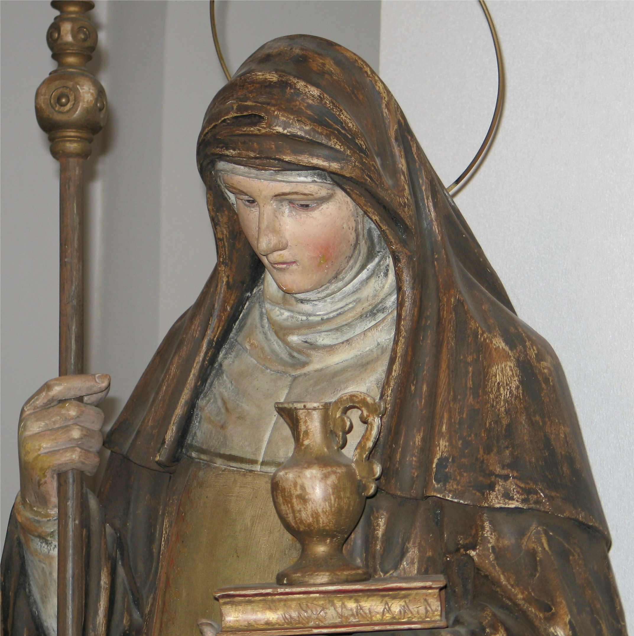 Statue of Saint Walpurga in the church of Contern, Luxembourg.